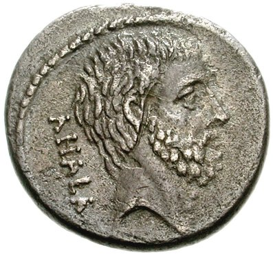 Ahala